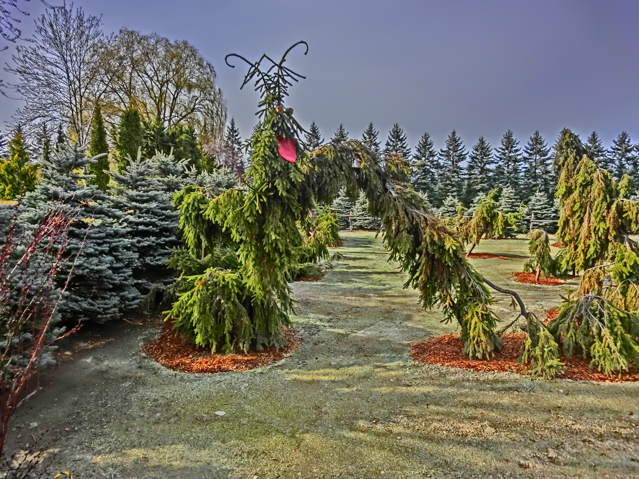 Picea omorika pendula (JAPAN)